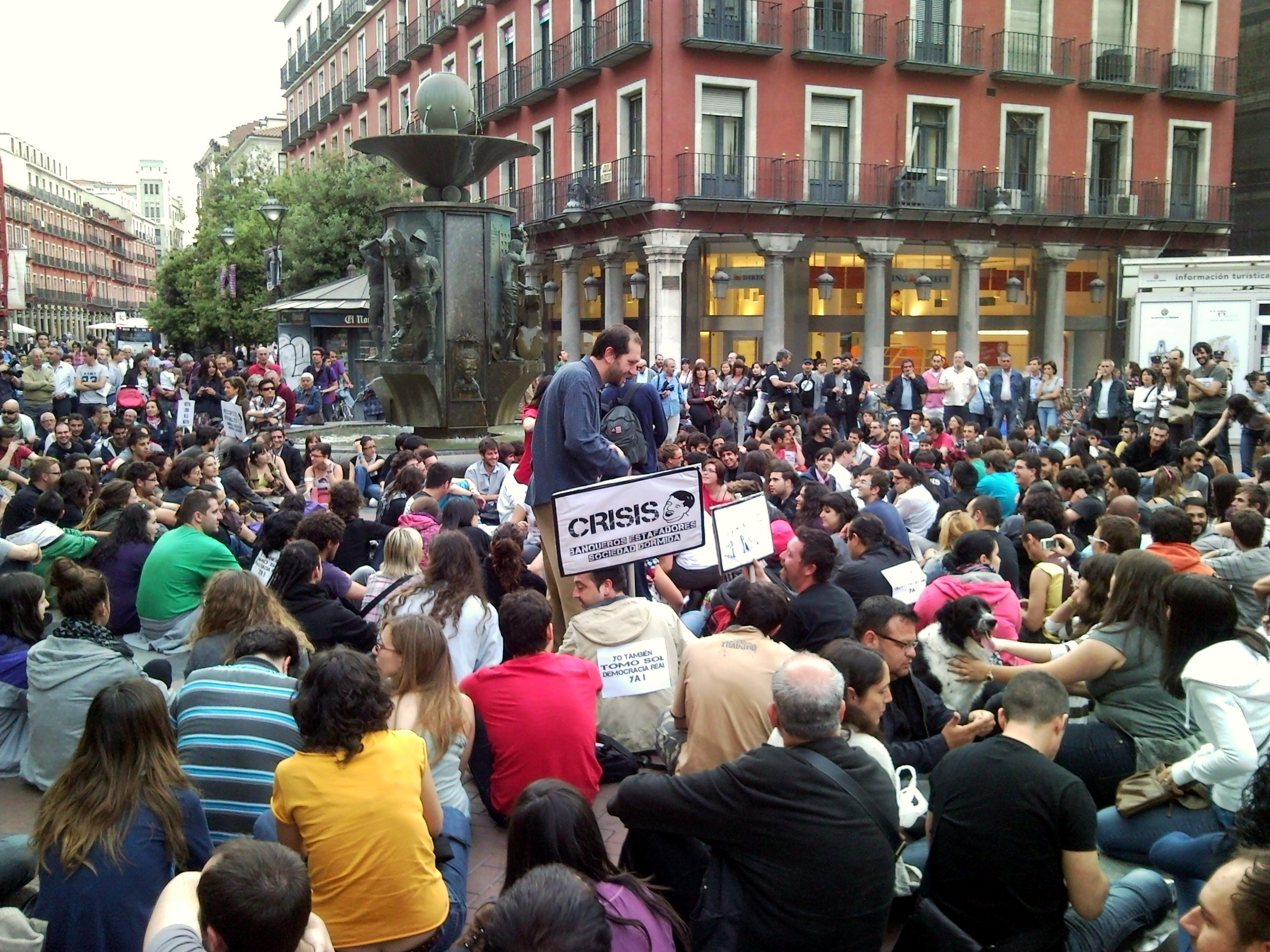 Protests in Valladolid, Spain.